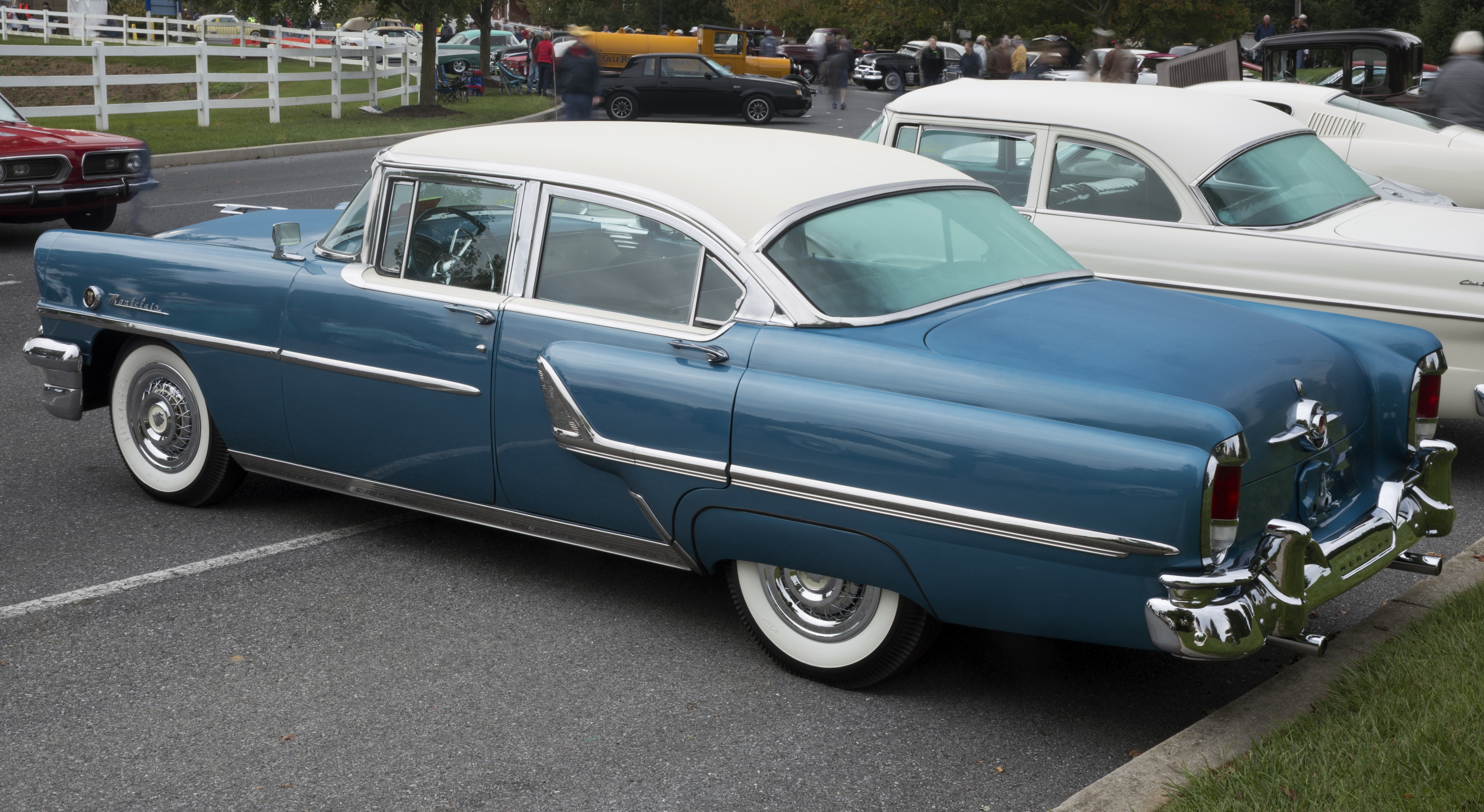 A 1955 Mercury Montclair 4-door sedan offered for sale at Hershey 2019.